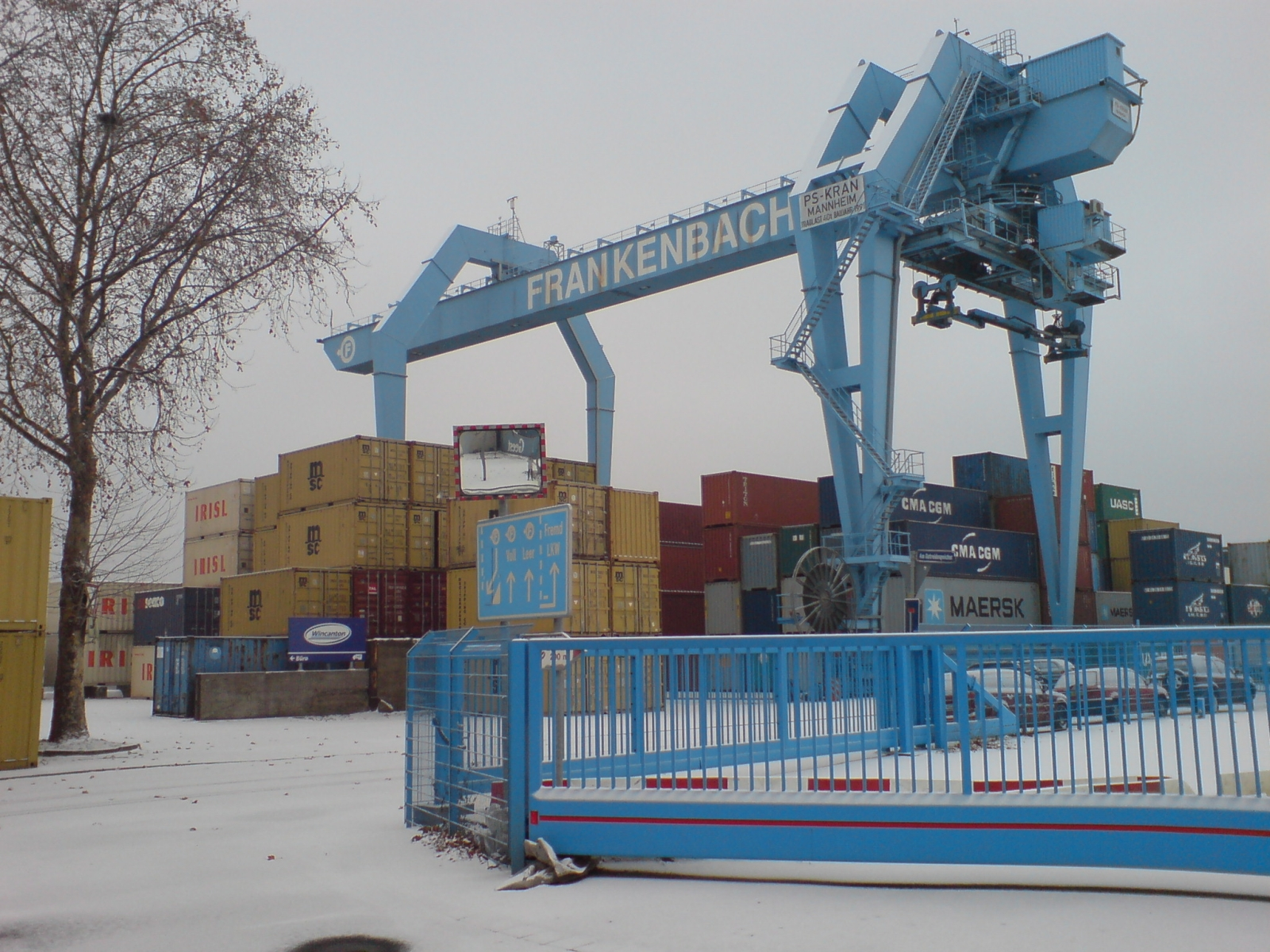 A container crane at the Port of Mainz, Mainz, Germany. Looking roughly east.